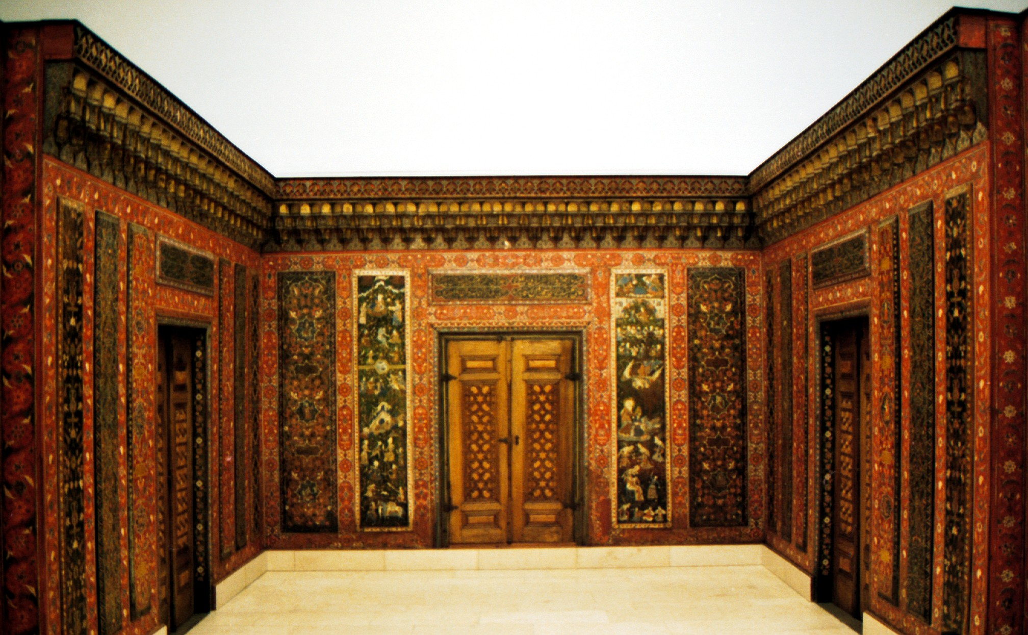 Islamic art facade. Museumsinsel, Berlin, Germany.